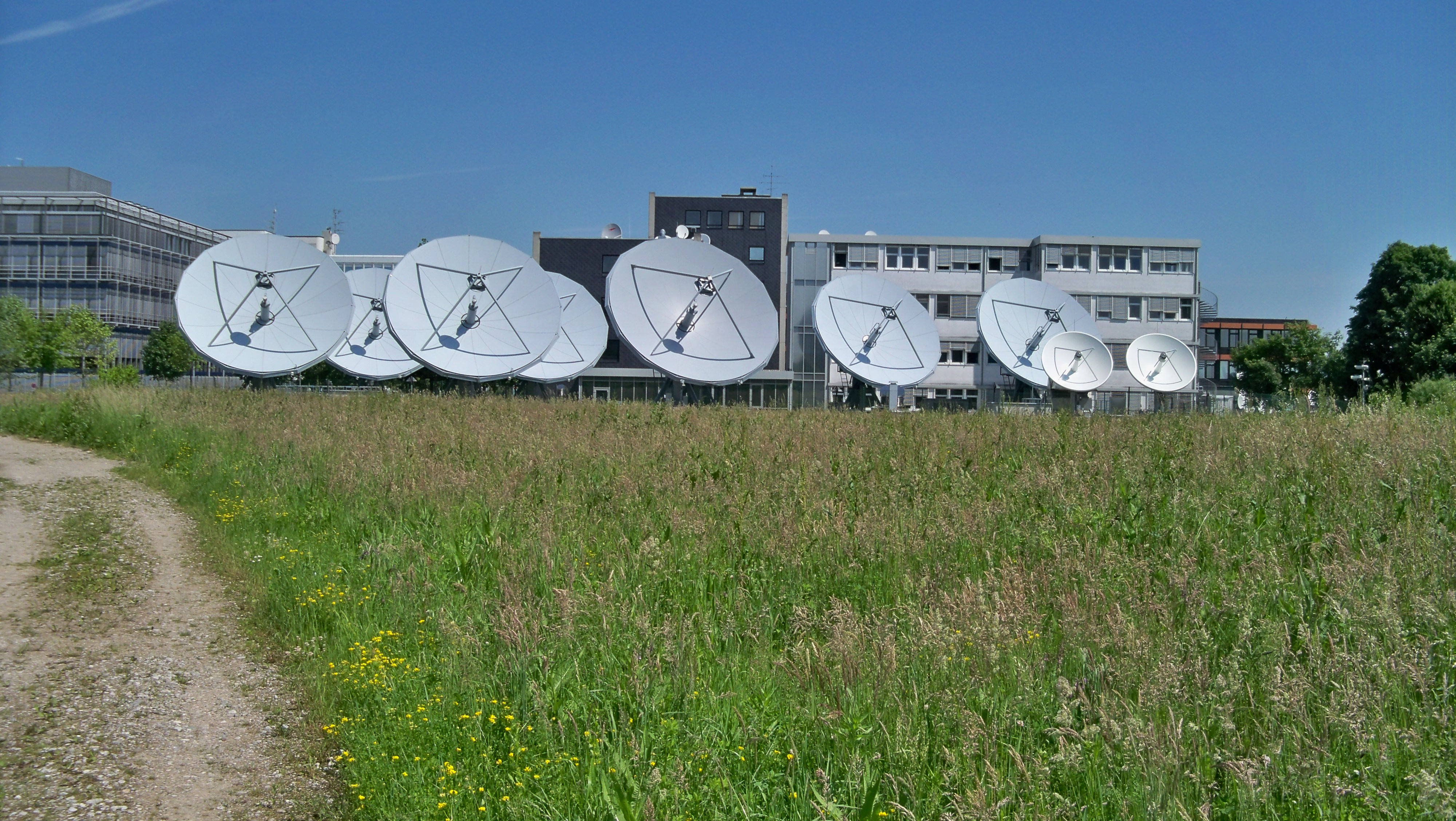 Parabolic antennas of Astra Platform Services in Unterföhring, Germany.